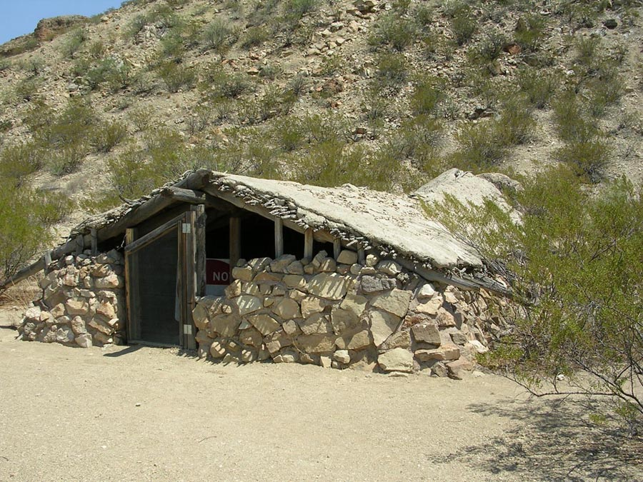 Luna Jacal shelter in Big Bend National Park, Texas, USA